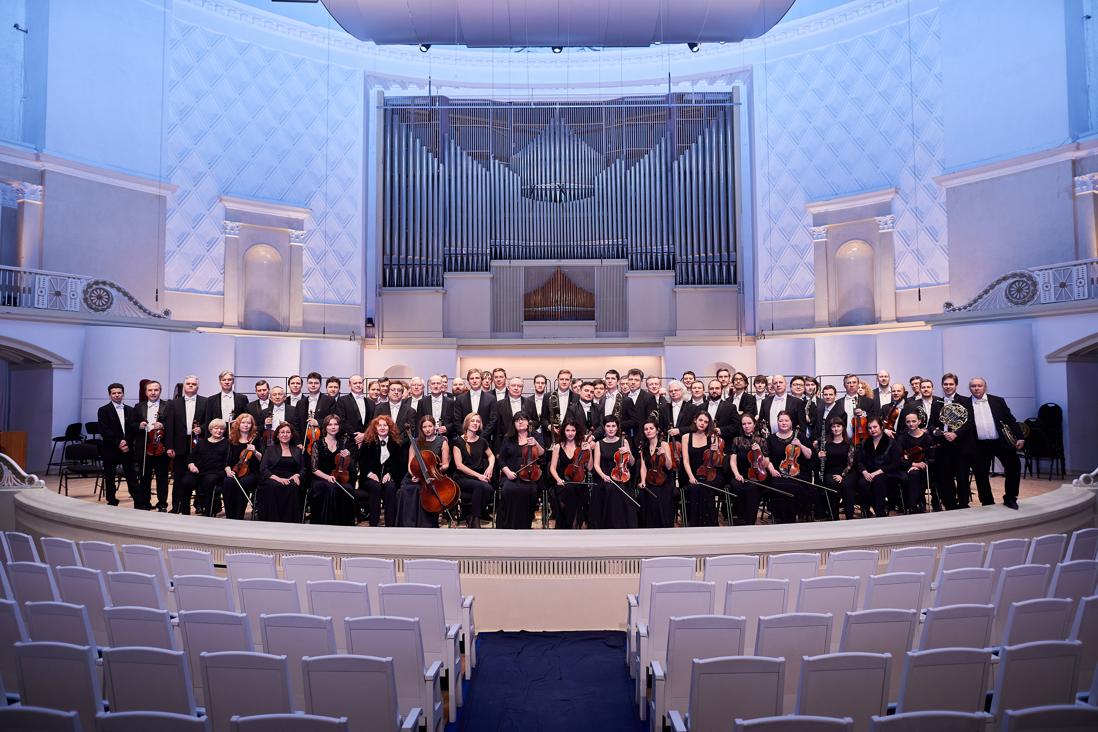 Group portrait of the Russian National Orchestra in Moscow, 2018.